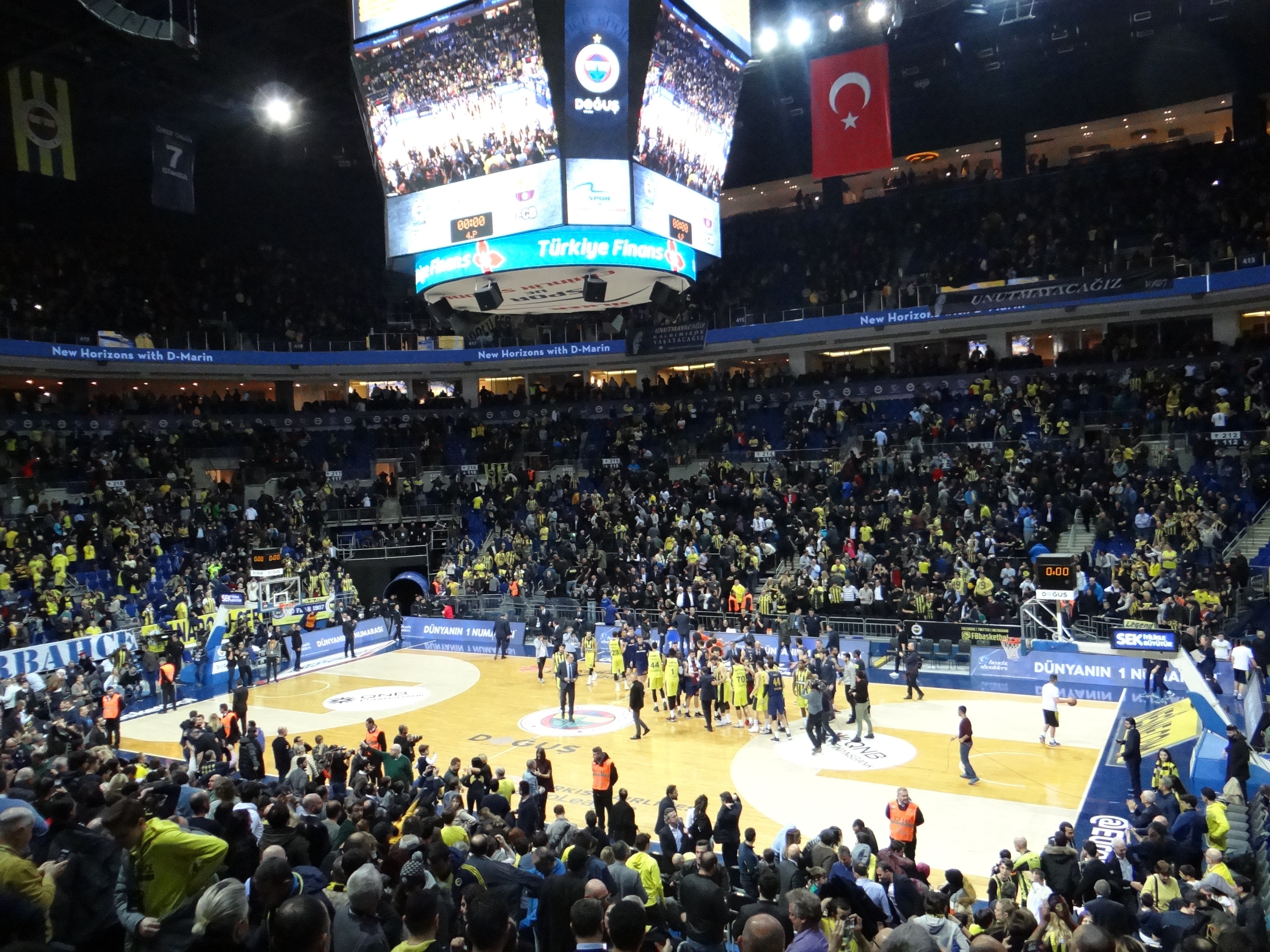 Fenerbahçe Men's Basketball vs FC Barcelona Bàsquet EuroLeague 20180126